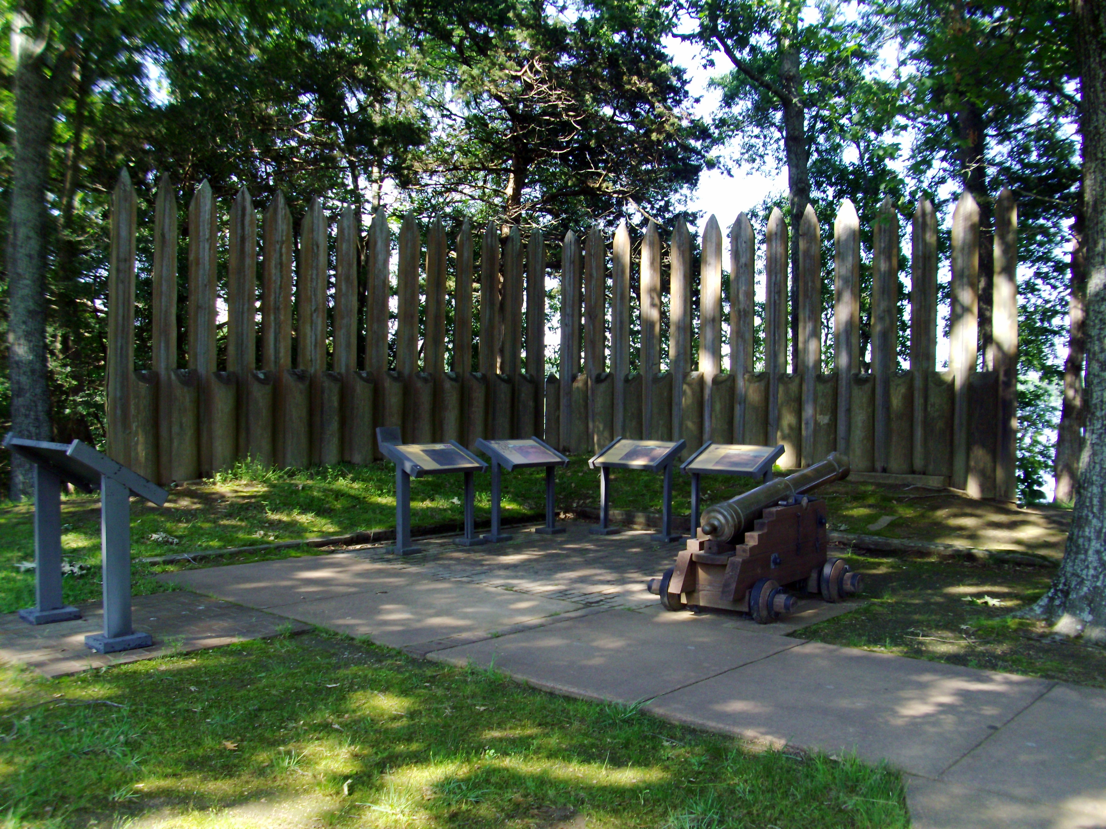 Cannons and interpretative signs